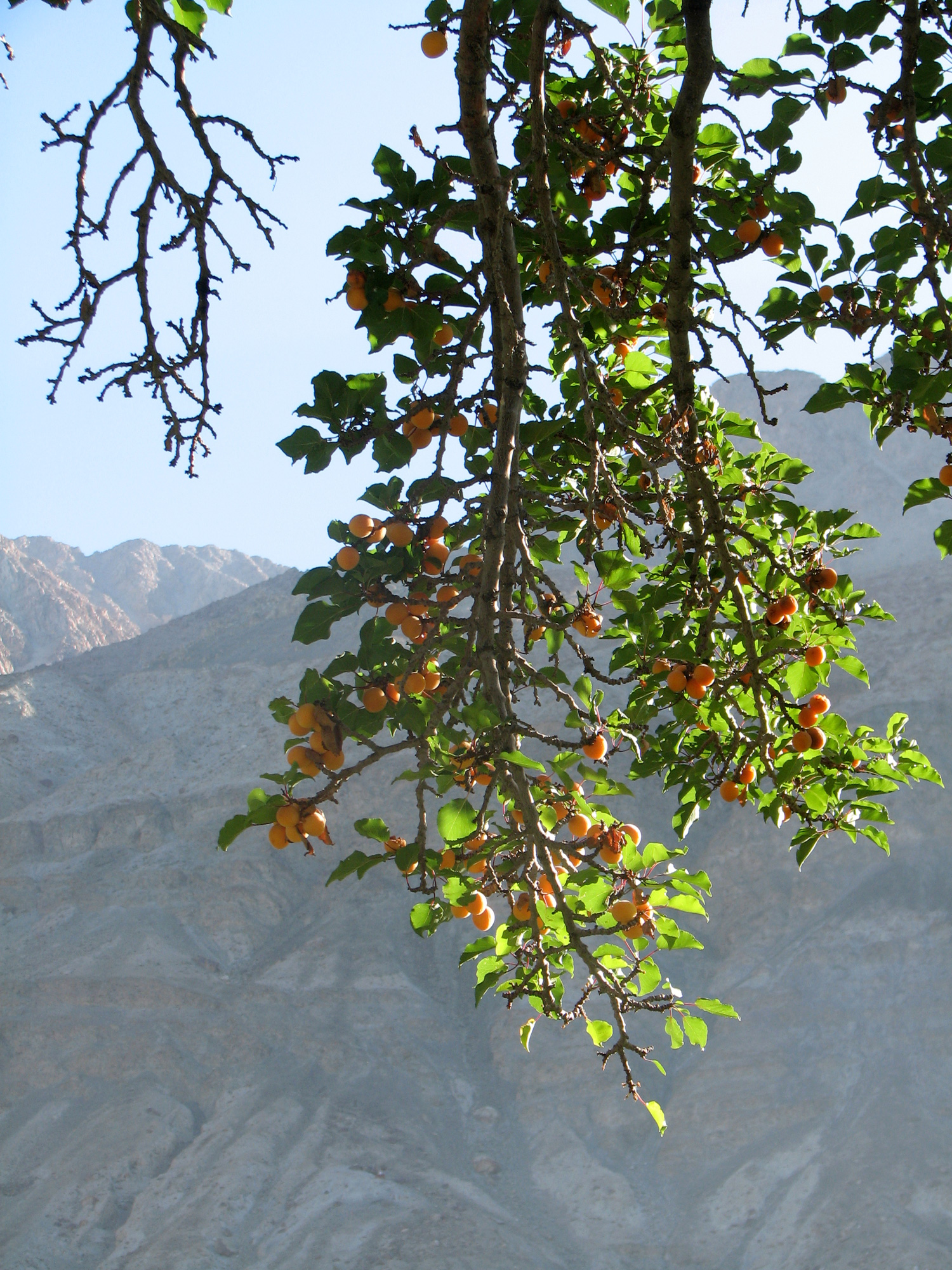 Low hanging branches of an Apricot tree full of fruit, contrasted by the barren mountains in the backdrop.